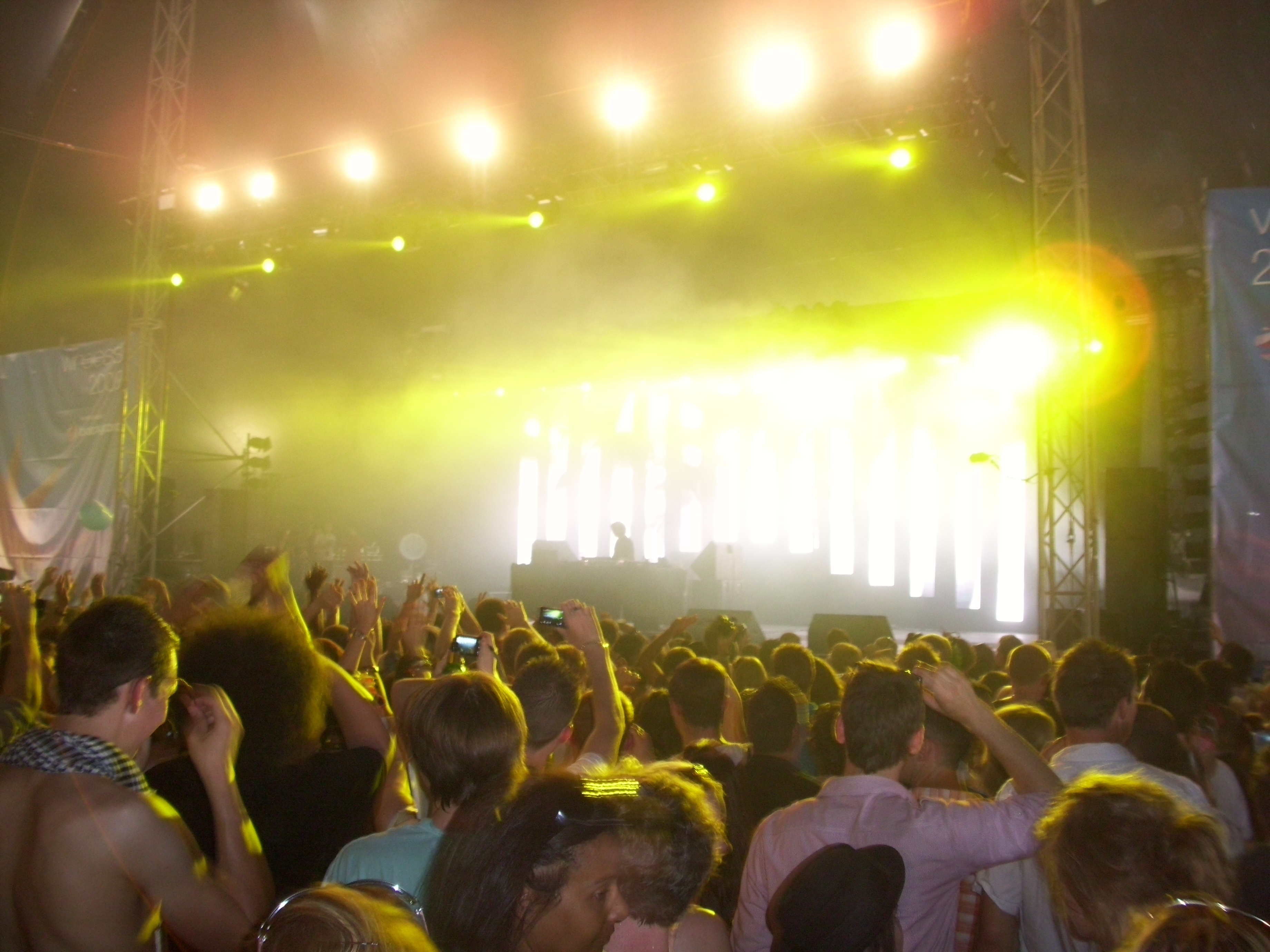 DJ Paul Oakenfold plays Stage Two at the 2009 Wireless Festival in Hyde Park, London.